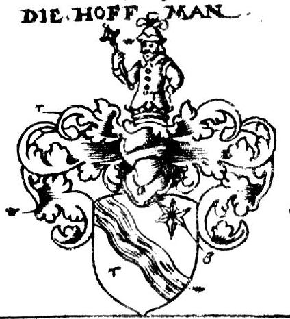 Hofmann Wappen Siebmacher 1703